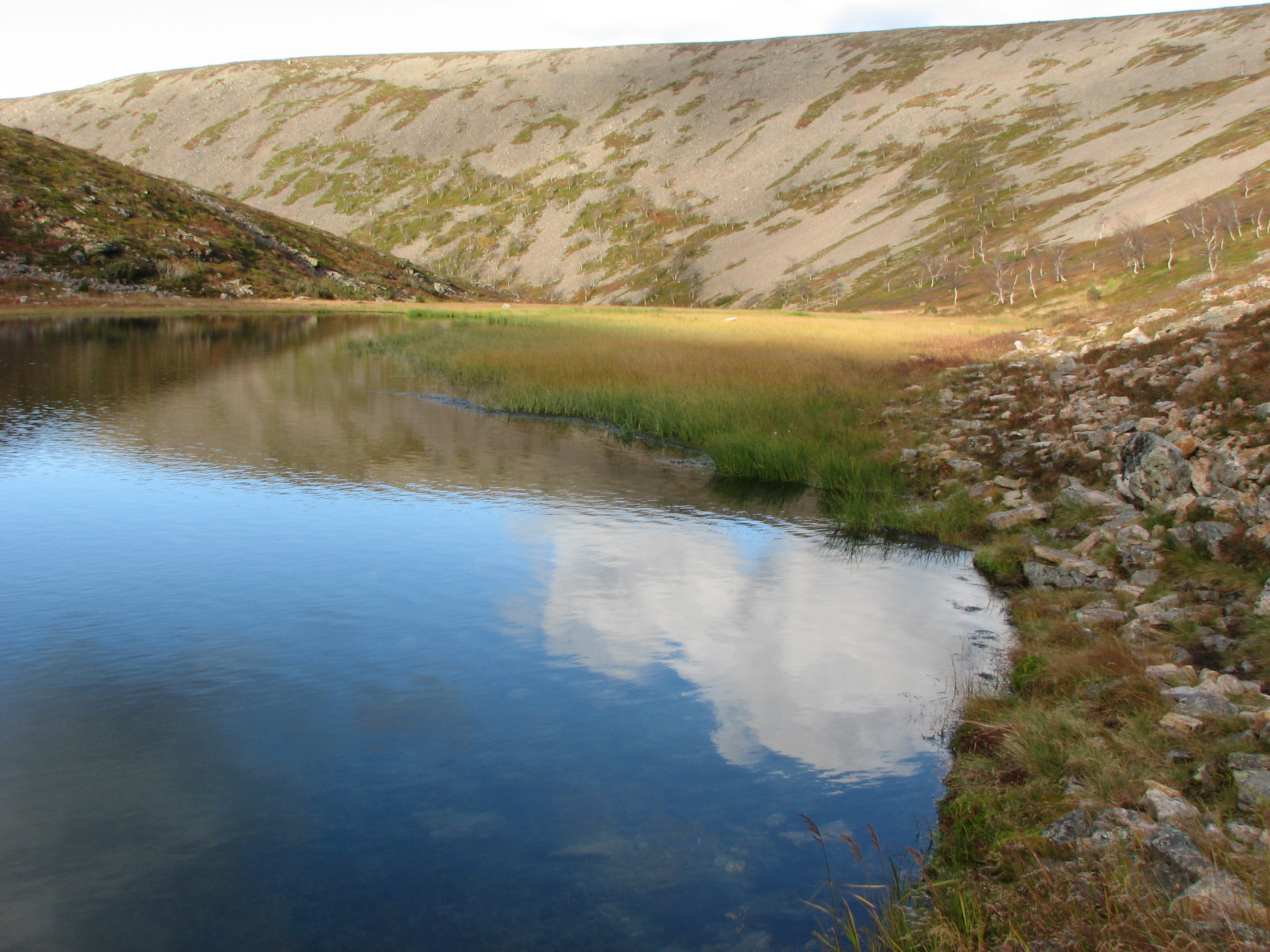 A lake in Paratiisikuru (valley), in Urho Kekkonen National Park, Sodankylä, Finland.